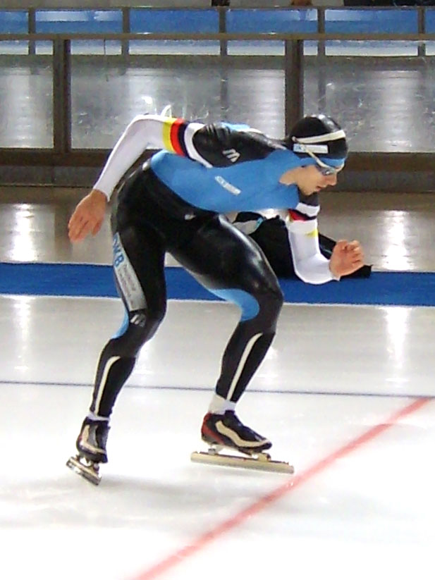 Veit Dubiel (GER) at the German Single Distanz Championship 2009 in Berlin, Germany, start 1000 m